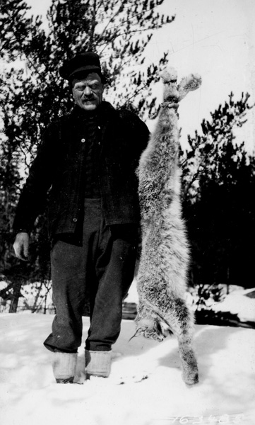 Photograph of a six foot man compared to a Canadian Lynx.